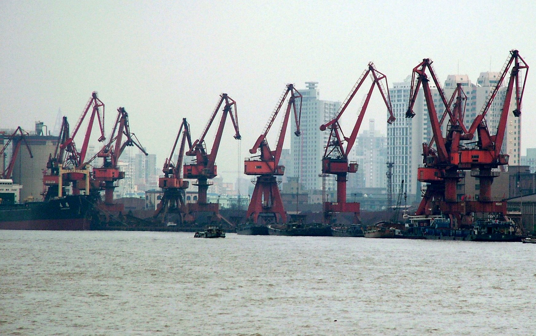 Sanghaj kikötő.